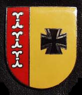 (Internal) coat of arms Verteidigungskreiskommando 334 Borken (VKK 334) of the Bundeswehr (Armed Forces of the Federal Republic of Germany). → Remarks on naming and categorization scheme